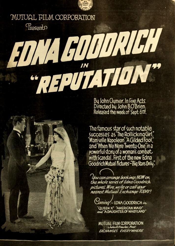 Advertisement in Moving Picture World for the American drama film Reputation (1917) with William Hinckley and Edna Goodrich.